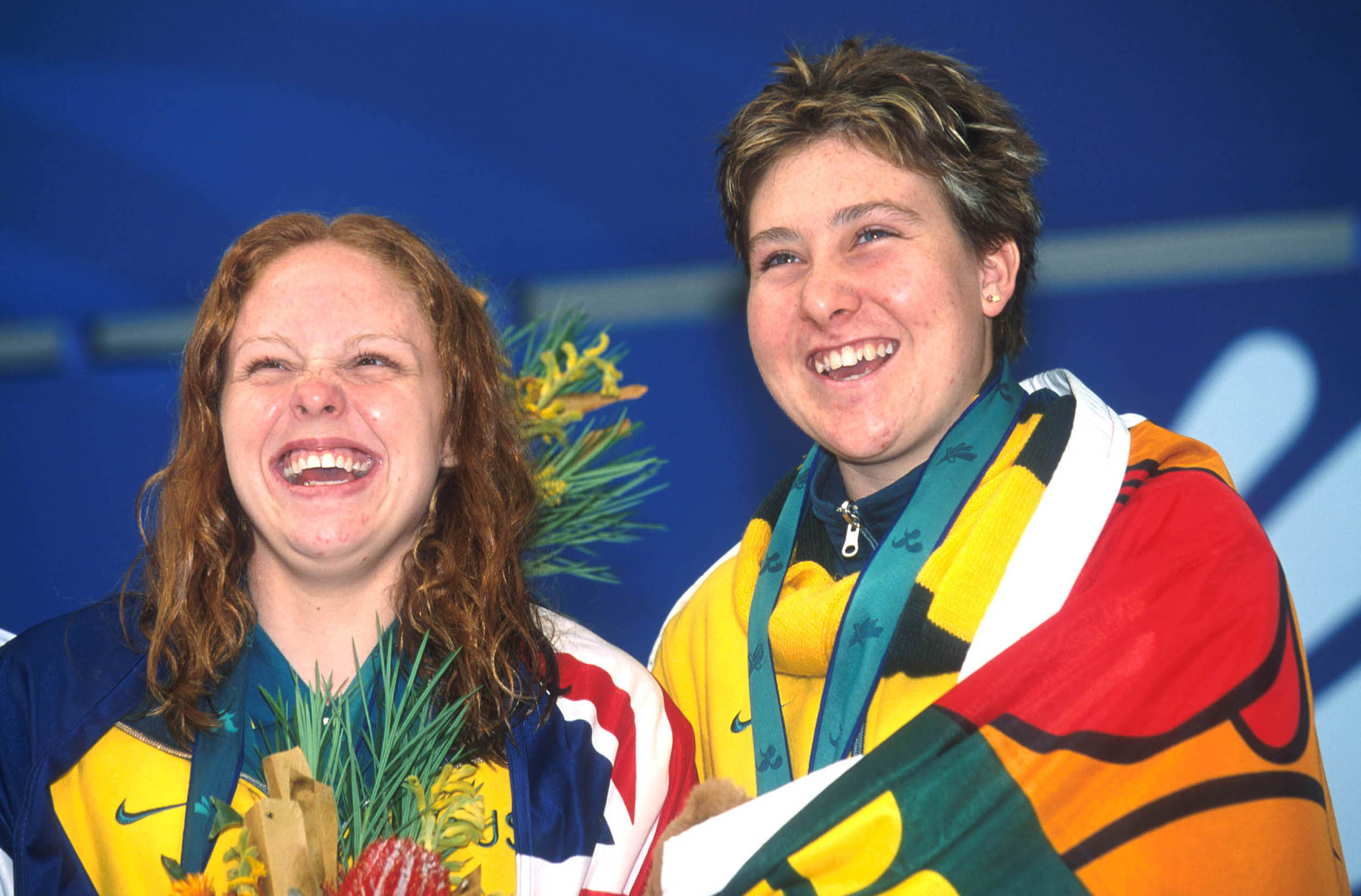 Australian swimmers (L-R) Siobhan Paton and Alicia Aberley on the medal podium at the 2000 Sydney Paralympic Games. Both women were multiple medalists at the games: here the medal event is unknown. Paton has the Australian flag wrapped around her, while Aberley has the Boxing Kangaroo flag.